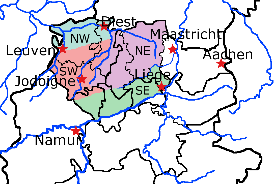 Vanderkindere proposed that the 4 counties mentioned in 870 must have been in these positions.